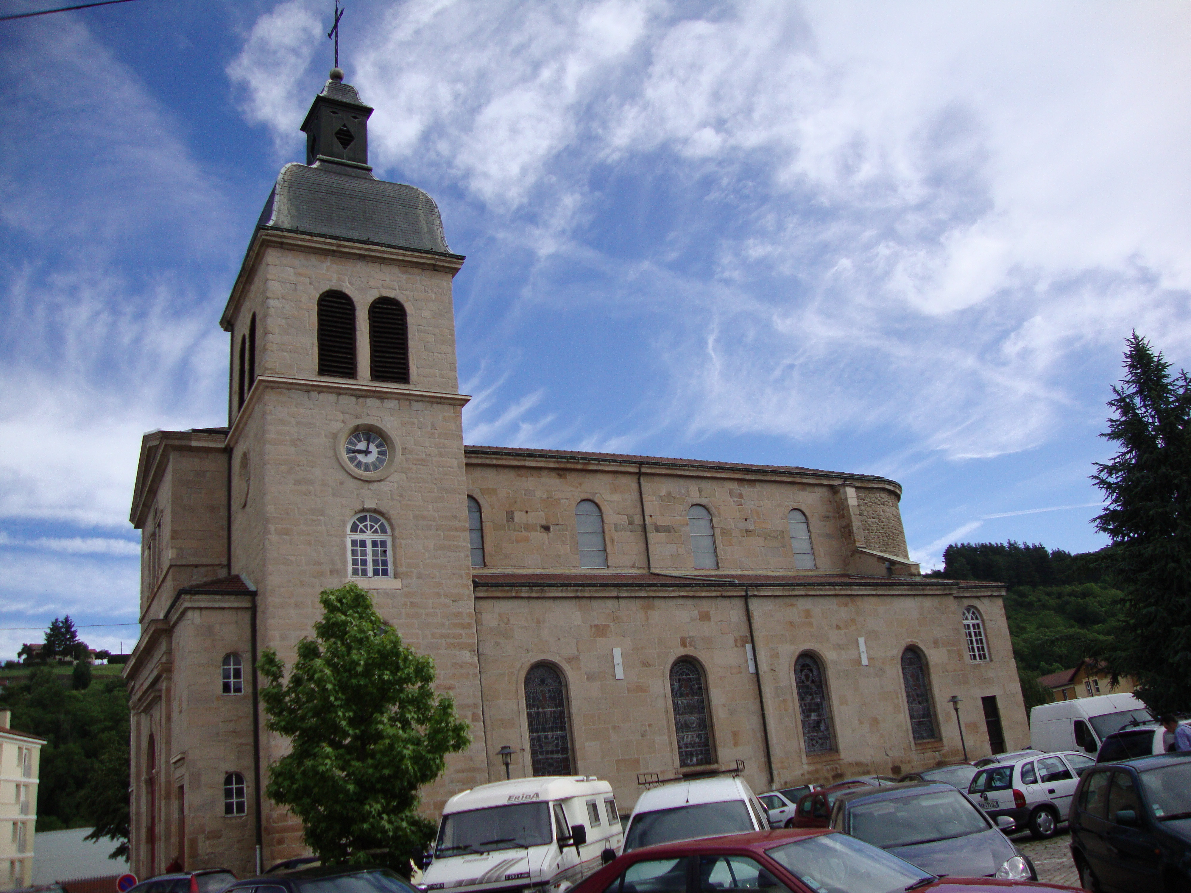 Le Chambon-Feugerolles (Loire, Fr) church.